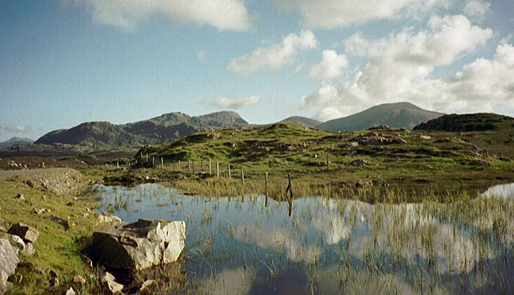 Uig Loch, Island of Lewis View of Uig Loch looking towards the mountains at the centre of the Island of Lewis. From: Photograph © Andrew Dunn (en:2002).